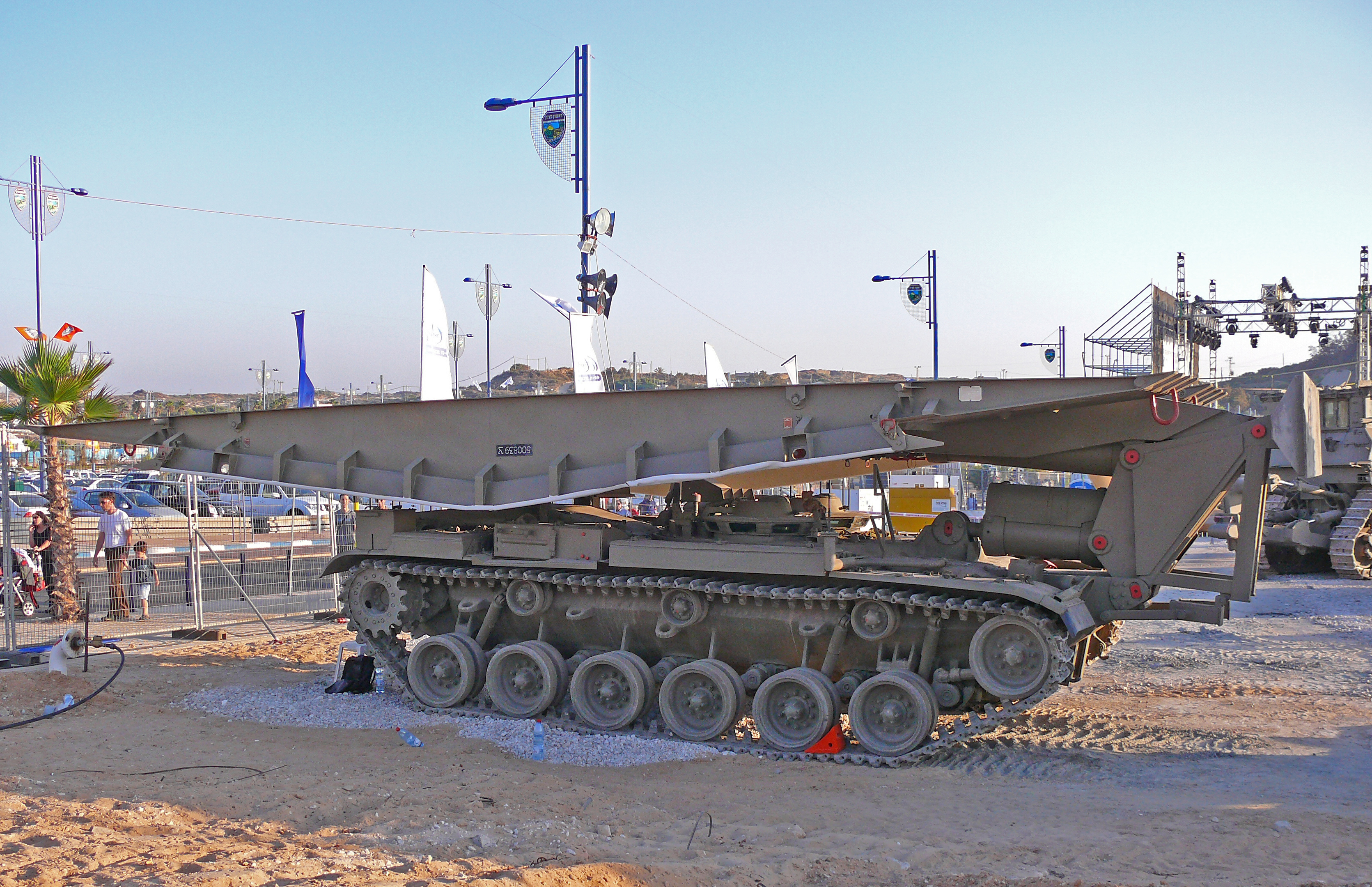 IDF M60 AVLB - bridge layer tank